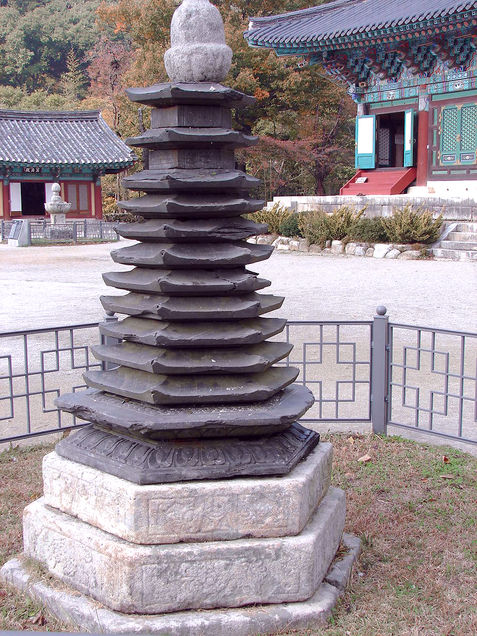 Geumsansa's hexagonal multi-stored stupa, Yukgak Tachung Soktap, is made of slate where most Korean stupas are made of granite. Judging by the engraving methods used in the main body and the roof stone it is estimated to have been built around the early Goryeo period (918-1392). National Treasure #27.